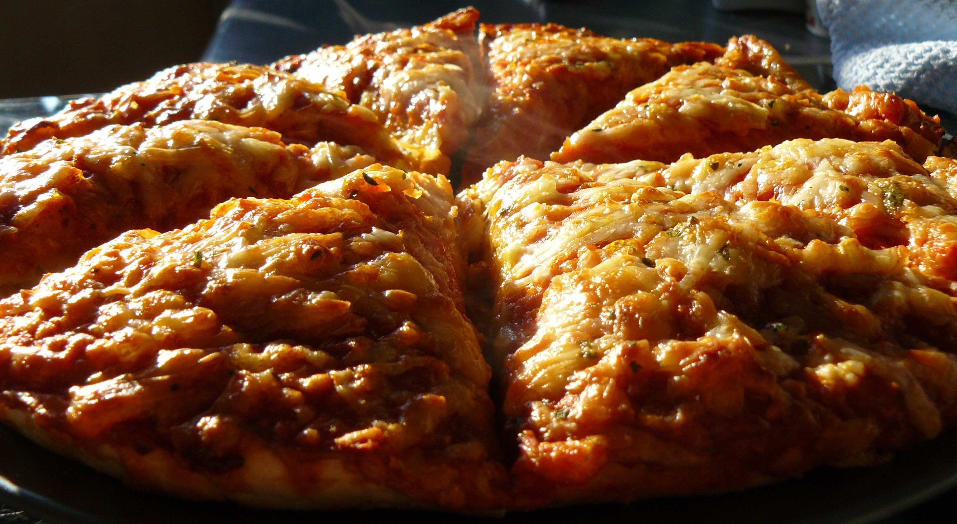 PHOTO OF CHEESE AND TOMATO PIZZA